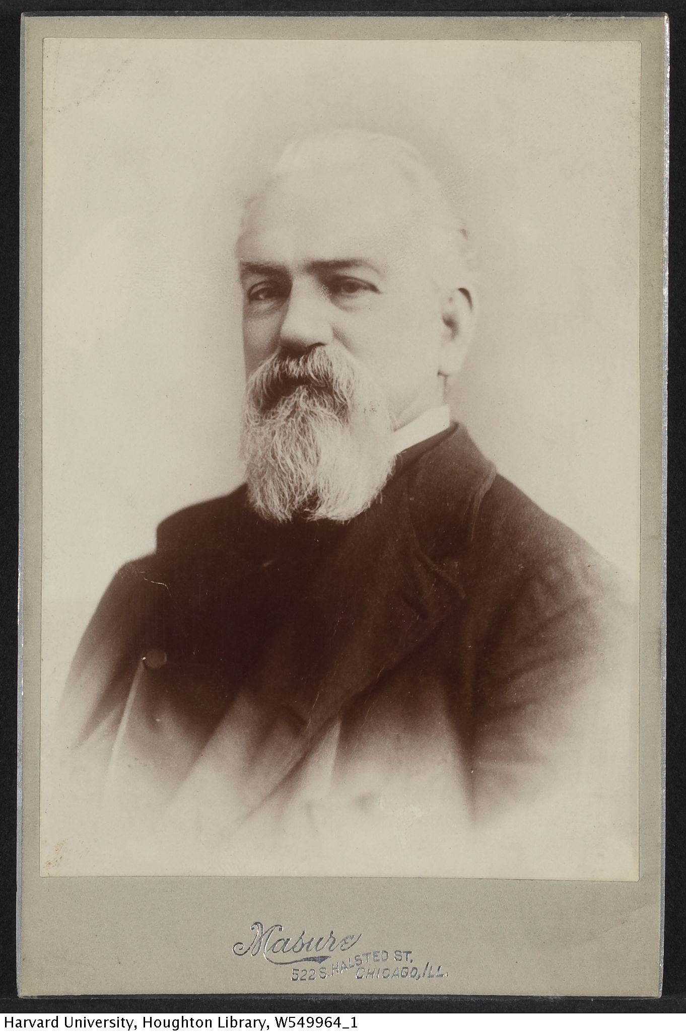 Cabinet card image of American minstrel performer John Hodges (1821-1891), who performed under the name "Cool White." TCS 1.1090, Harvard Theatre Collection, Harvard University